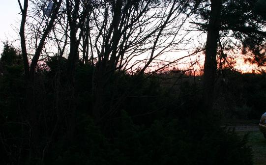 Early dawn showing red colouring af the NE sky over east Jutland. used on Morgenrøde